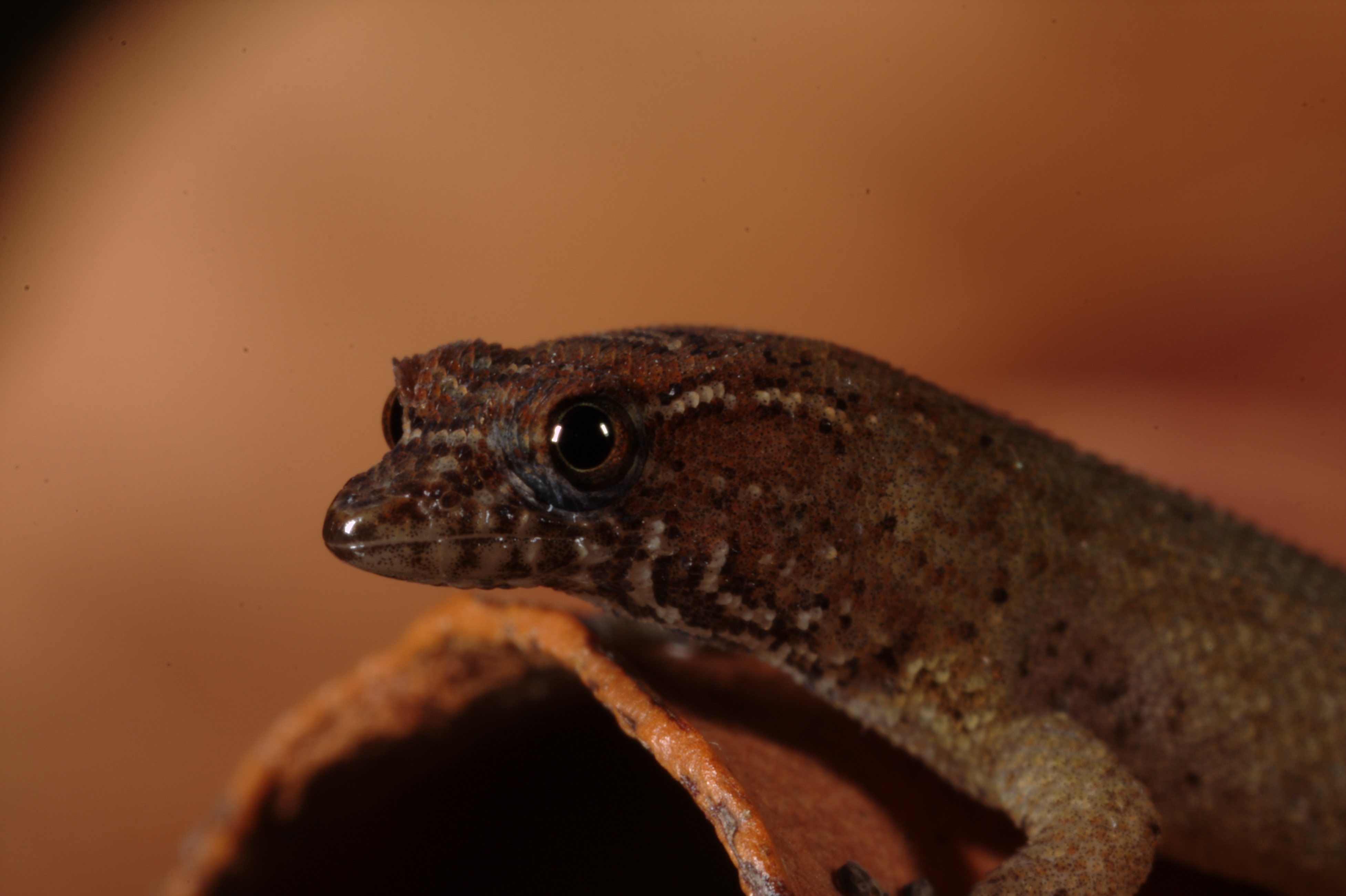 Female Sphaerodactylus parthenopion from Mahoe Bay, Virgin Gorda